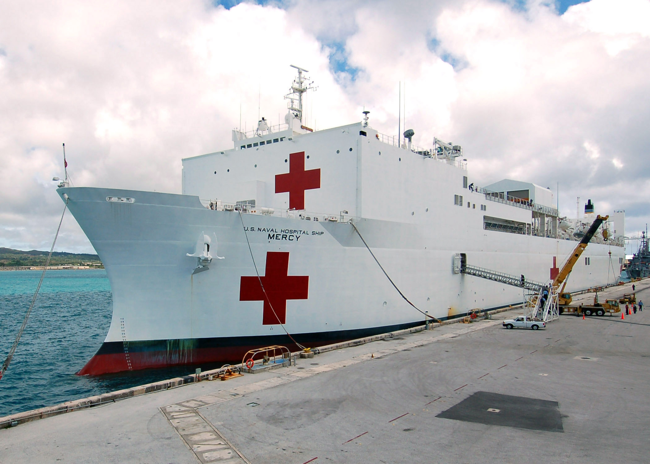 Naval Station Guam (May 15, 2006) - The Military Sealift Command hospital ship USNS Mercy (T-AH 19) makes a one-day stop to give the crew a break and pick up Naval Mobile Construction Battalion Four Zero (NMCB-40). NMCB-40 will augment Mercy during its five-month humanitarian deployment to South and Southeast Asia, and the Pacific Islands. Mercy and NMCB-40 will conduct civic efforts and minor construction projects in the regions. The medical crew aboard Mercy will provide general and ophthalmology surgery, basic medical evaluation and treatment, preventive medicine treatment, dental screenings and treatment, optometry screenings, eyewear distribution, public health training and veterinary services as requested by the host nations. Mercy is uniquely capable of supporting medical- and humanitarian-assistance needs and is configured with special medical equipment and a robust multi-specialized medical team who can provide a range of services ashore as well as aboard the ship. The medical staff is augmented with an assistance crew, many of whom are part of non-governmental organizations that have significant medical capabilities. U.S. Navy photo by Journalist Seaman Joseph Caballero (RELEASED)